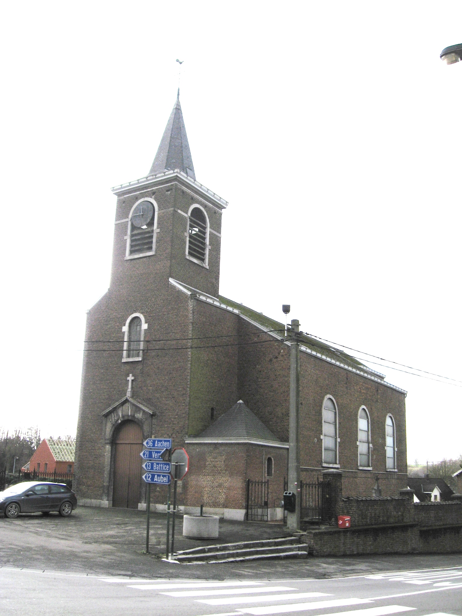 Church of Saint Servatius in Berneau, Dalhem, Liège, Belgium